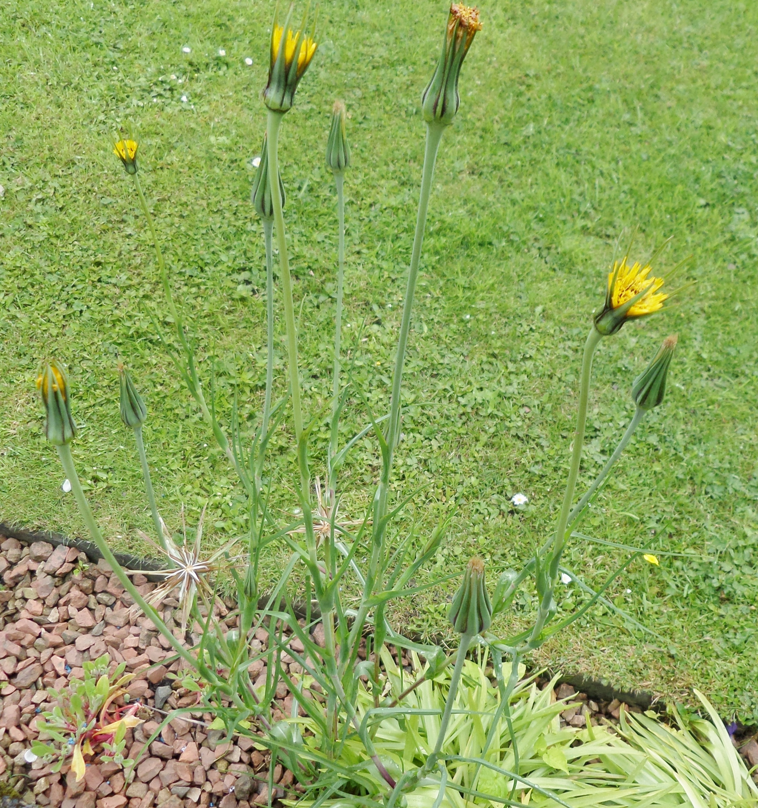 Tragopogon pratensis - plant and flowers of Goat's-beard or Jack-go-to-bed-at -noon, Chapeltoun, North Ayrshire, Scotland.